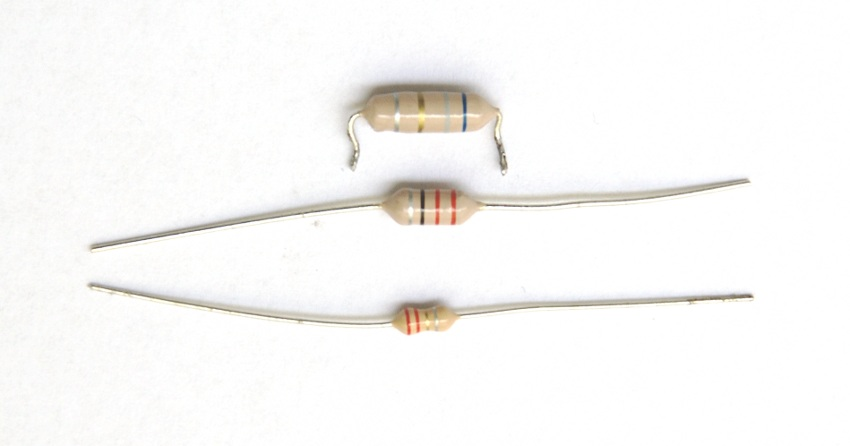 Some coils, inductors or chokes